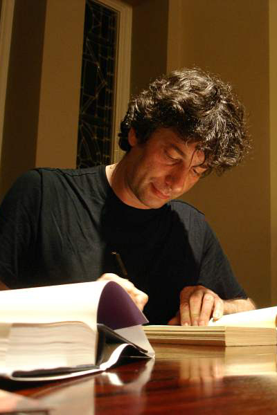 Neil Gaiman, signing books after a reading from "Anansi Boys" in Berkeley, 2005.